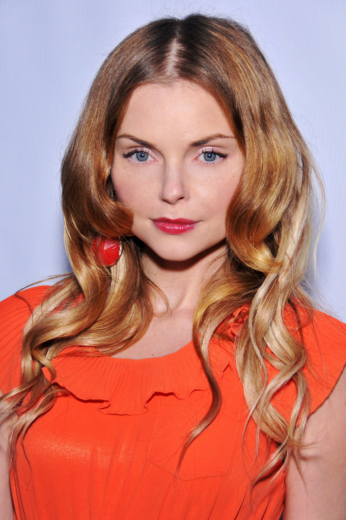 Isabella Milo, West Hollywood (California), on 2 April 2013.